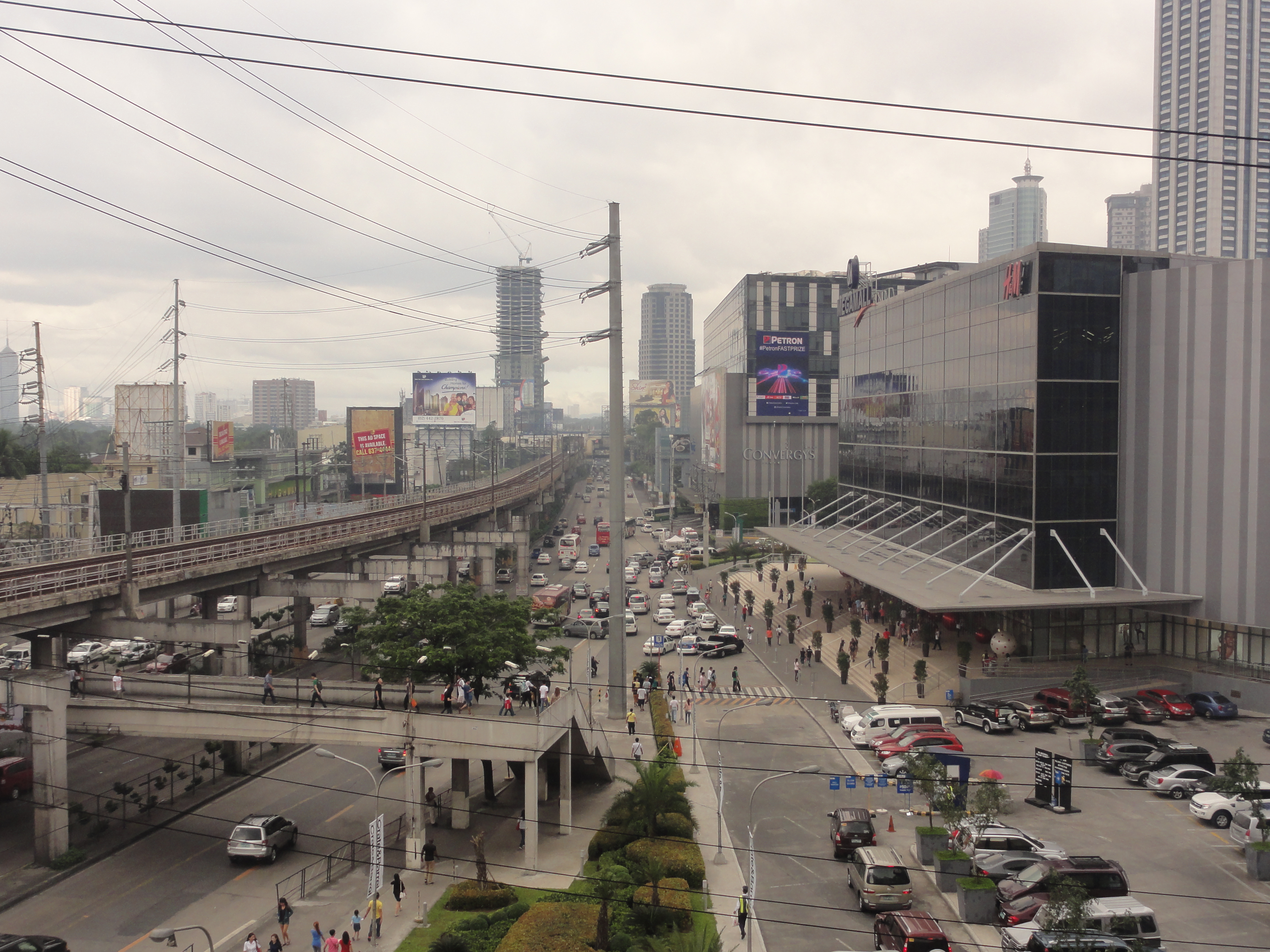 View of E. Delos Santos Avenue (EDSA) in Mandaluyong City, Metro Manila as of December 2014. Shot near SM Megamall.